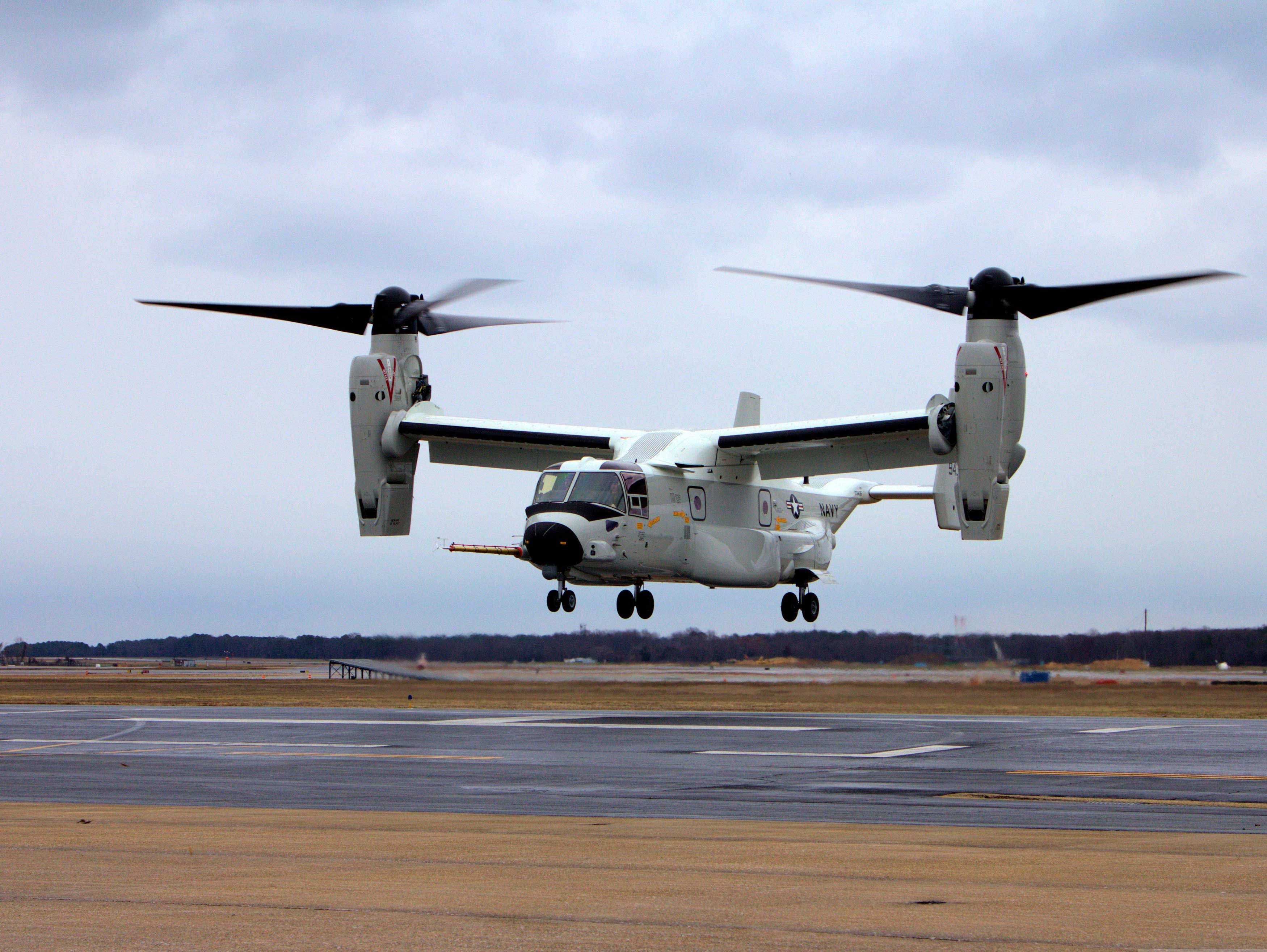 A U.S. Navy Bell-Boeing CMV-22B Osprey (BuNo 169435) is shown during a reveal ceremony on 7 February 2020, at the Bell Assembly Center in Amarillo, Texas (USA). The CMV-22B is a variant of the MV-22B Osprey and is the replacement for the Grumman C-2A Greyhound for the carrier onboard delivery (COD) mission. Air Test and Evaluation Squadron 21 (HX-21) will lead developmental test efforts for the program and the first operational squadron, Fleet Logistics Multi-Mission Squadron 30 (VRM-30), is scheduled to receive the aircraft in the summer of 2020. The CMV-22B will transport up to 6,000 lb (2,700 kg) from shore bases to aircraft carriers at sea over a 1,150 nautical mile (2,100 km) range.